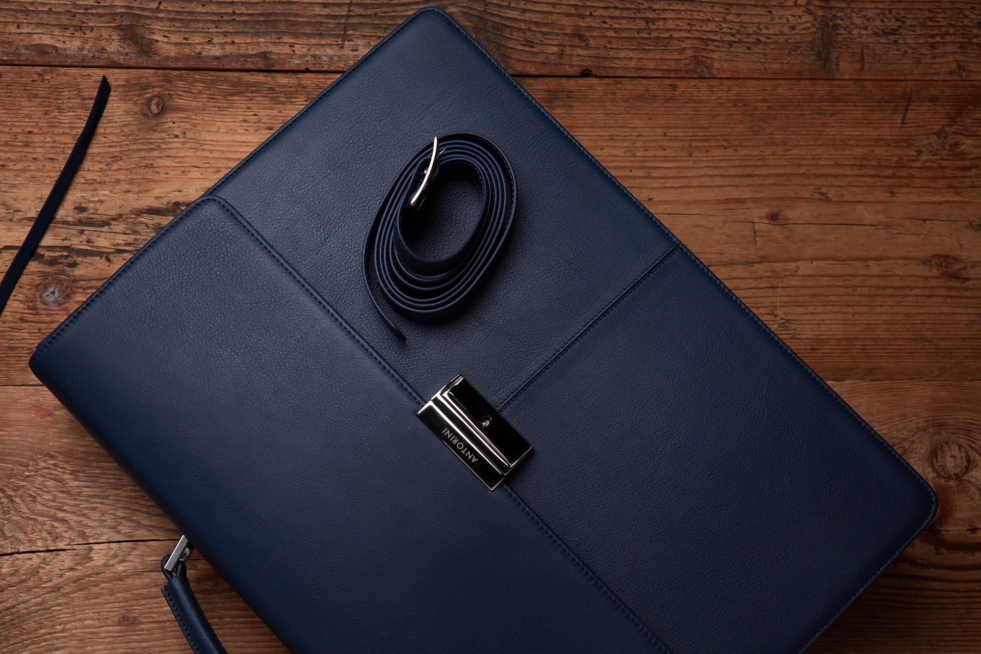 ANTORINI luxury leather briefcase. This collection is the best example of perfect Italian craftmade traditional processing with exclusive design of manufacturer.